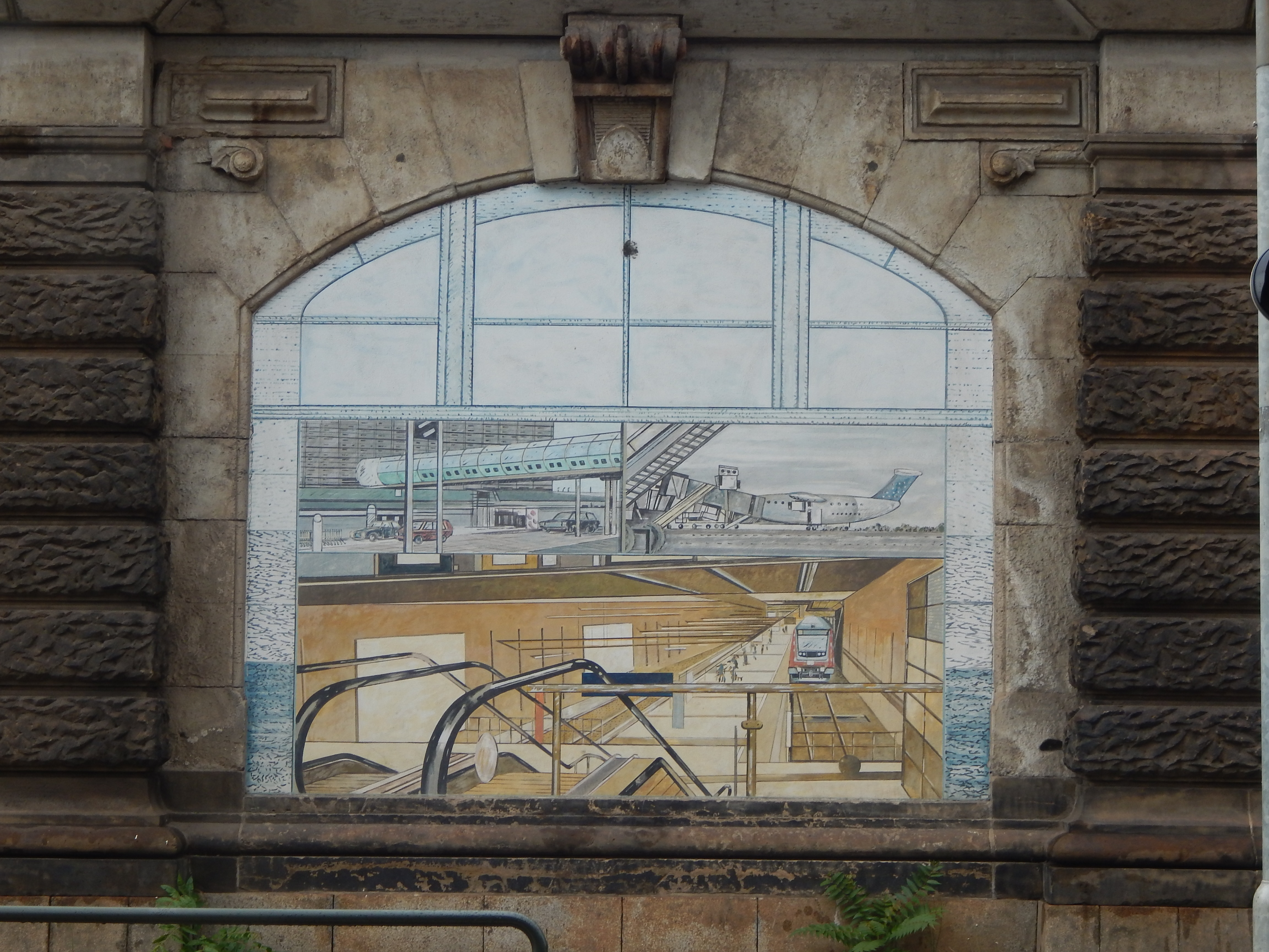 Murals at Dresden Mitte Railway station